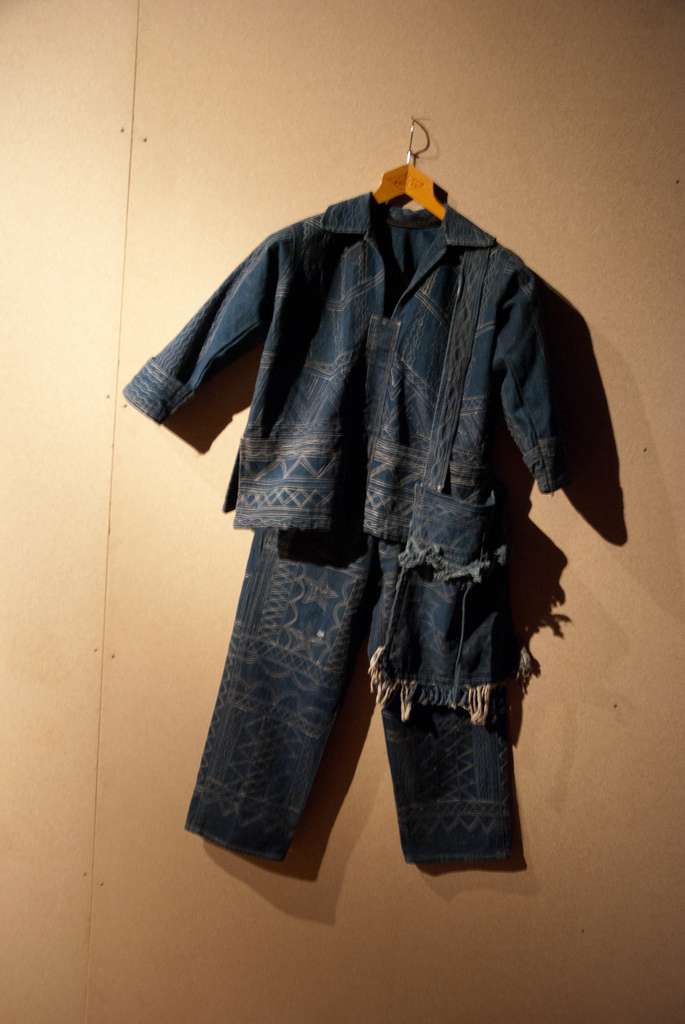 Antique ceremonial suit for Haitian Vodou rites, exhibit at Ethnological Museum of Berlin, Germany. Part of the collection of FPVPOCH – Fondation pour la Préservation, la Valorisation et la Production d’Oeuvres Culturelles Haïtiennes: [FPVPOCH]